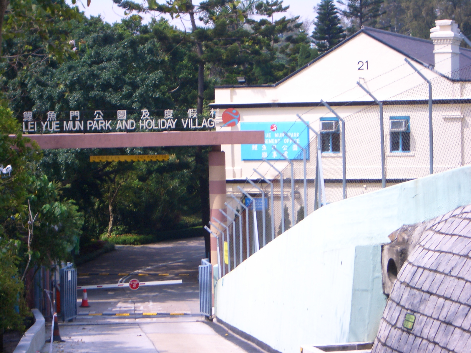 Lee Yue Mun Park And Holiday Village at chai Wan, Hong Kong